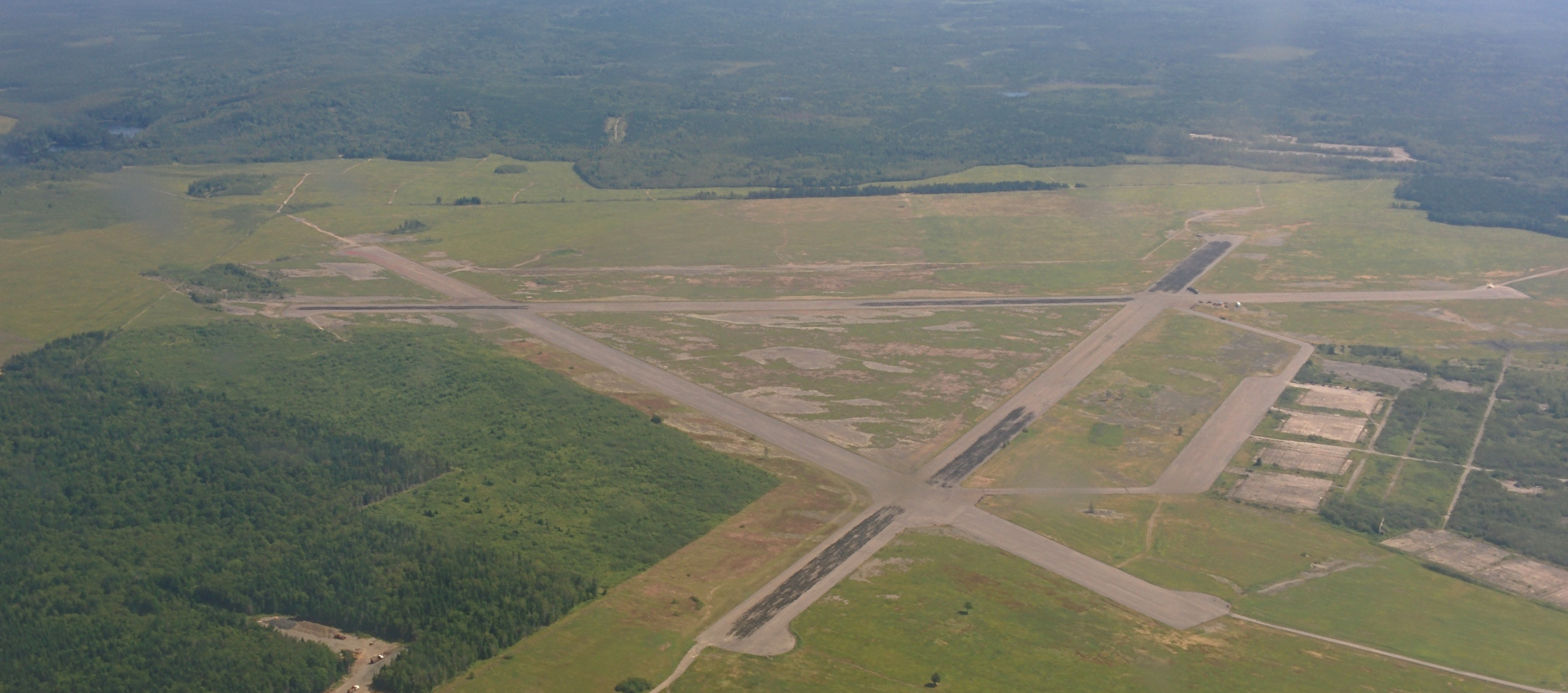 RCAF Station Pennfield Ridge - 2014